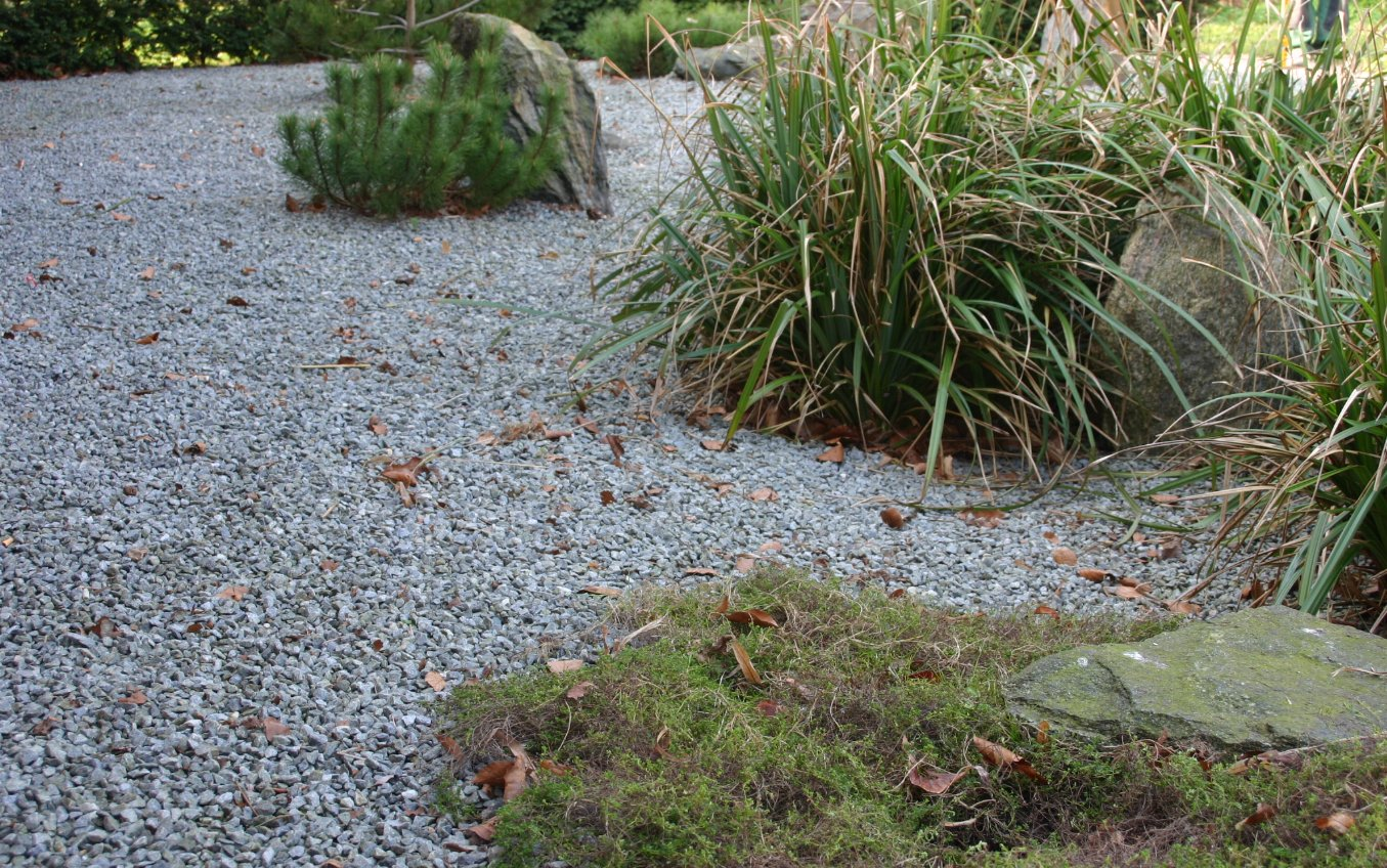 Broken stones of the fraction 11/16 mm